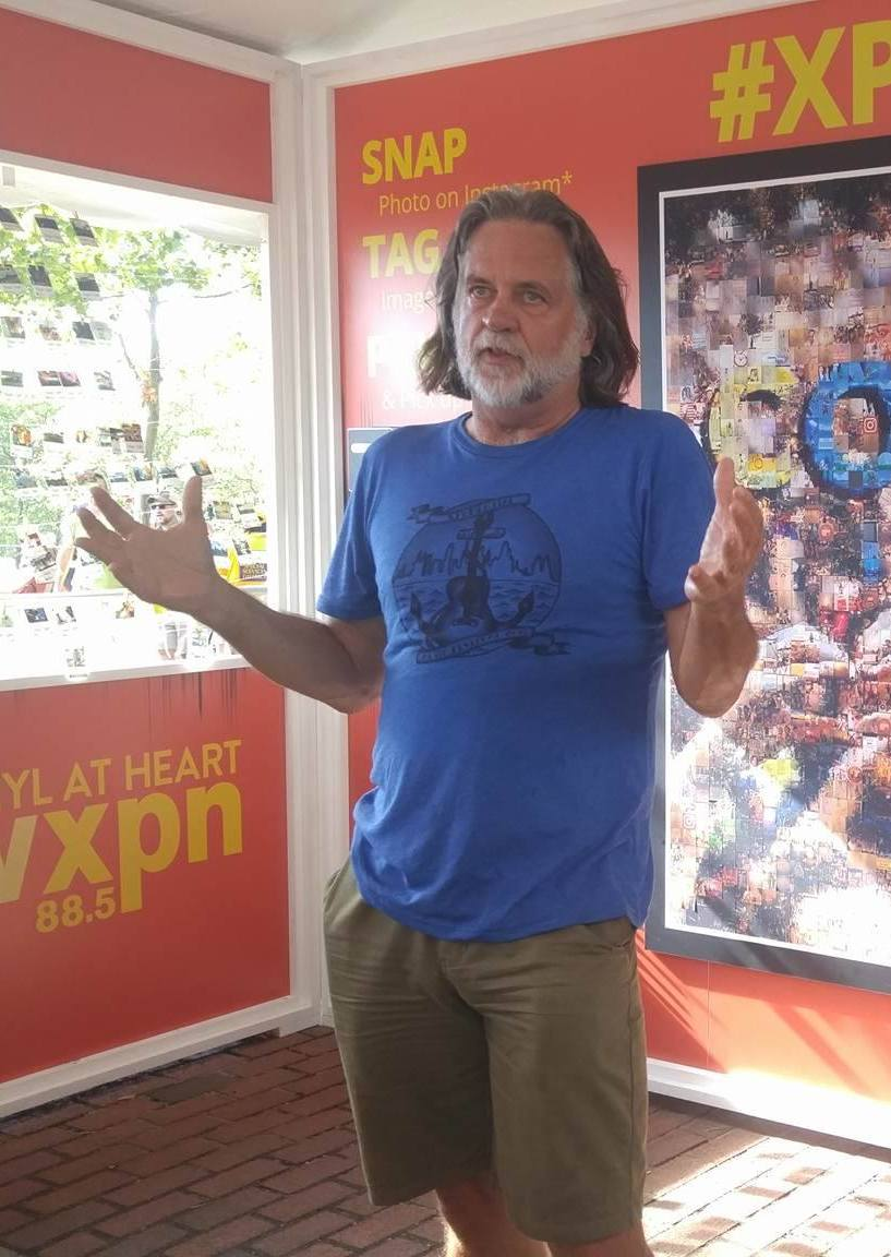 Roger LaMay is speaking to a group of people at the WXPN music festival in 2016.